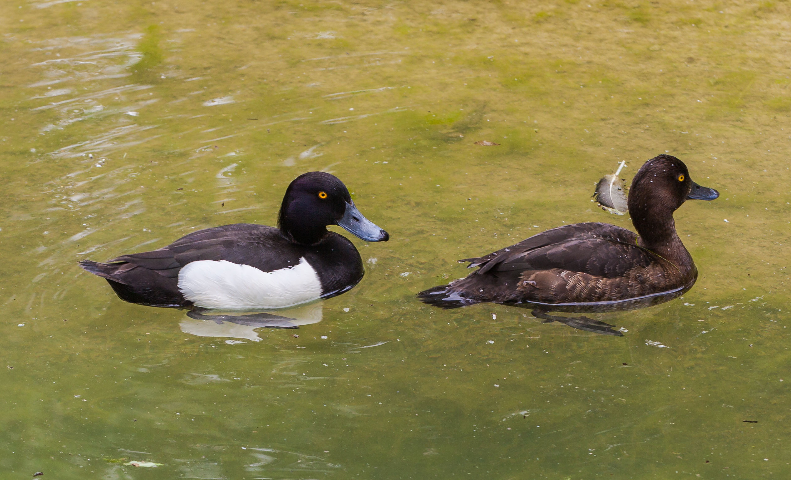 Tufted Duck (Aythya fuligula), Tierpark Hellabrunn, Munich, Germany